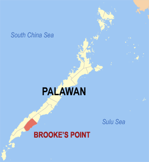 Map of Palawan showing the location of Brooke's Point